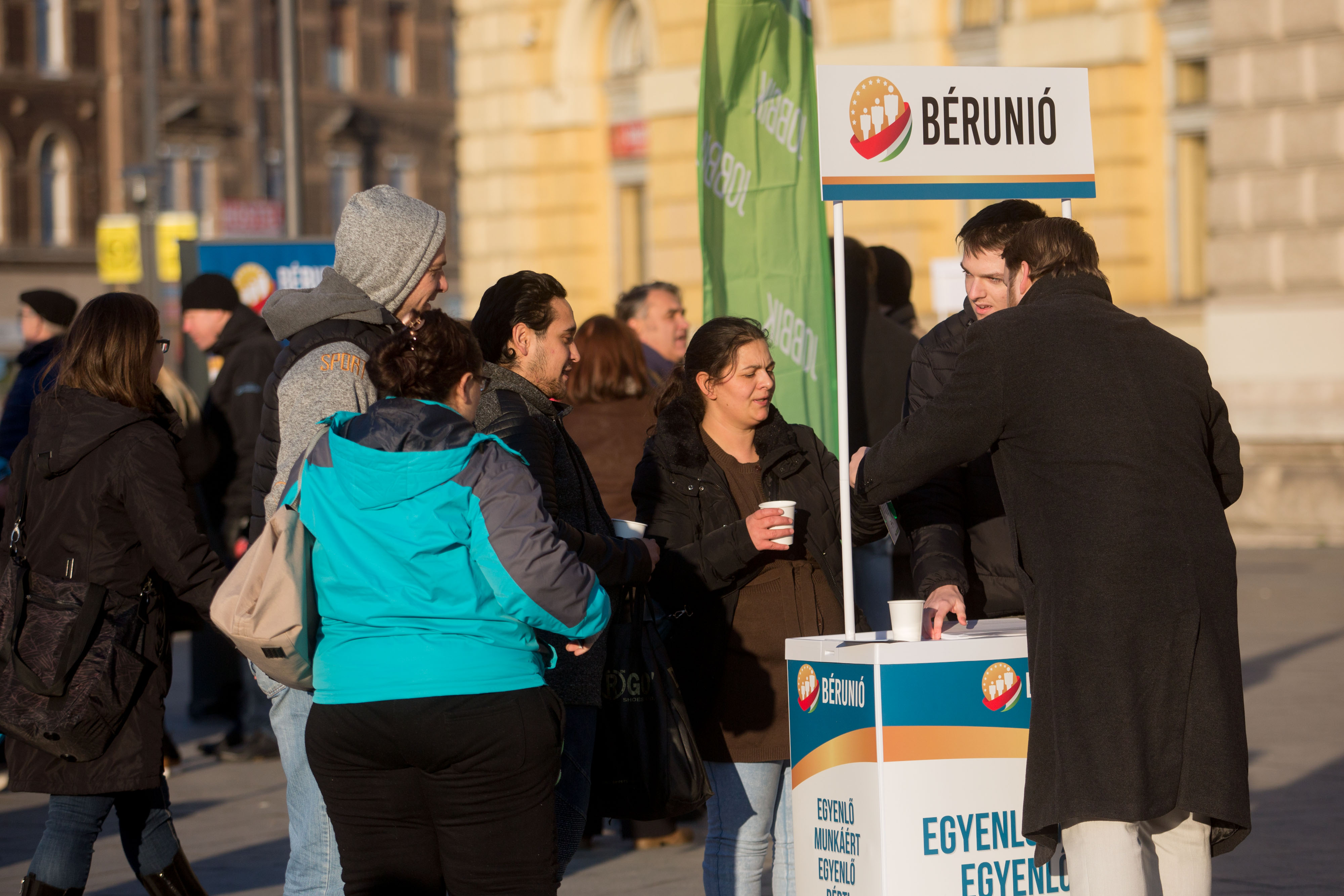 Collecting signs for the Wage Union in Budapest